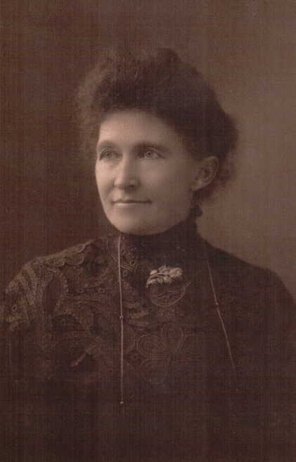 The photograph used by the local newspapers announcing Mrs. Myrick's retirement from the Americus Times-Recorder